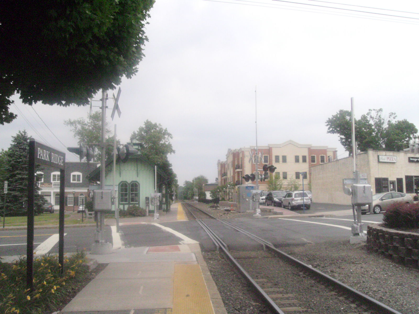 The Park Ridge station facing northward towards the classic Erie Railroad station in Park Ridge, New Jersey.